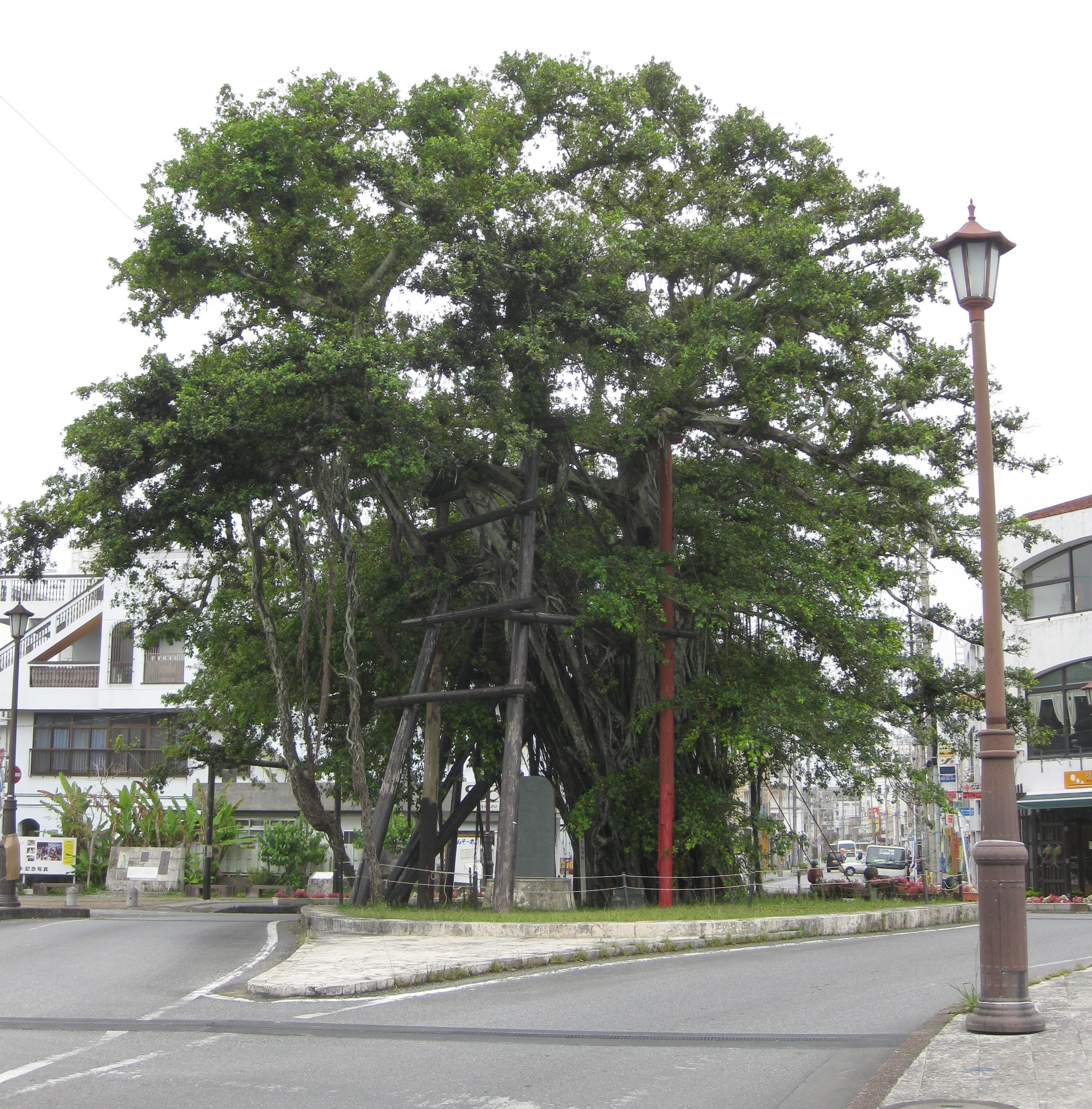 The Large Tree of Ficus microcarpa called "Hinpun Gajumaru" in Nago, Okinawa, Japan